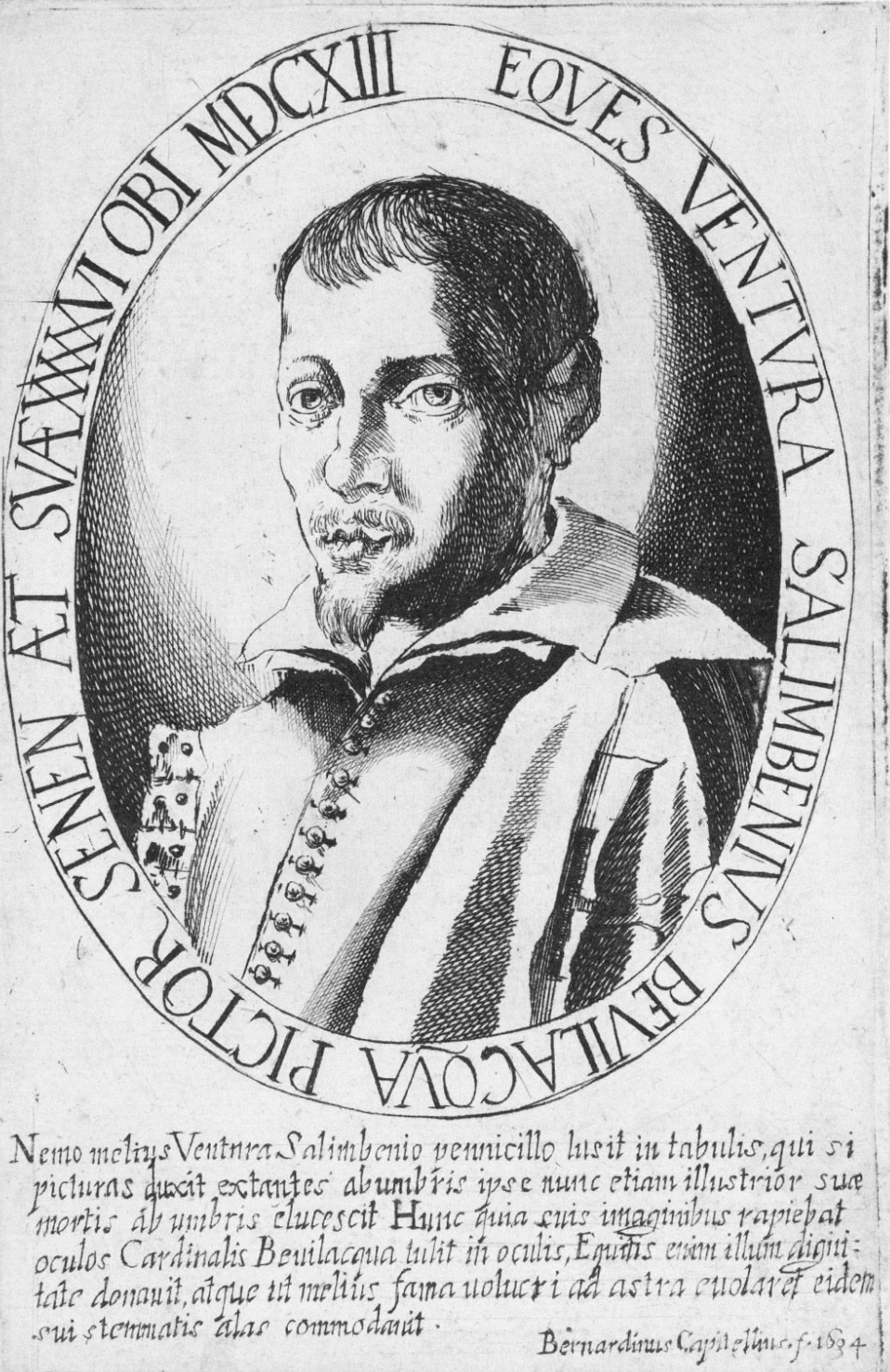 Ventura Salimbeni etching 15.7 x 10.1 cm (plate)